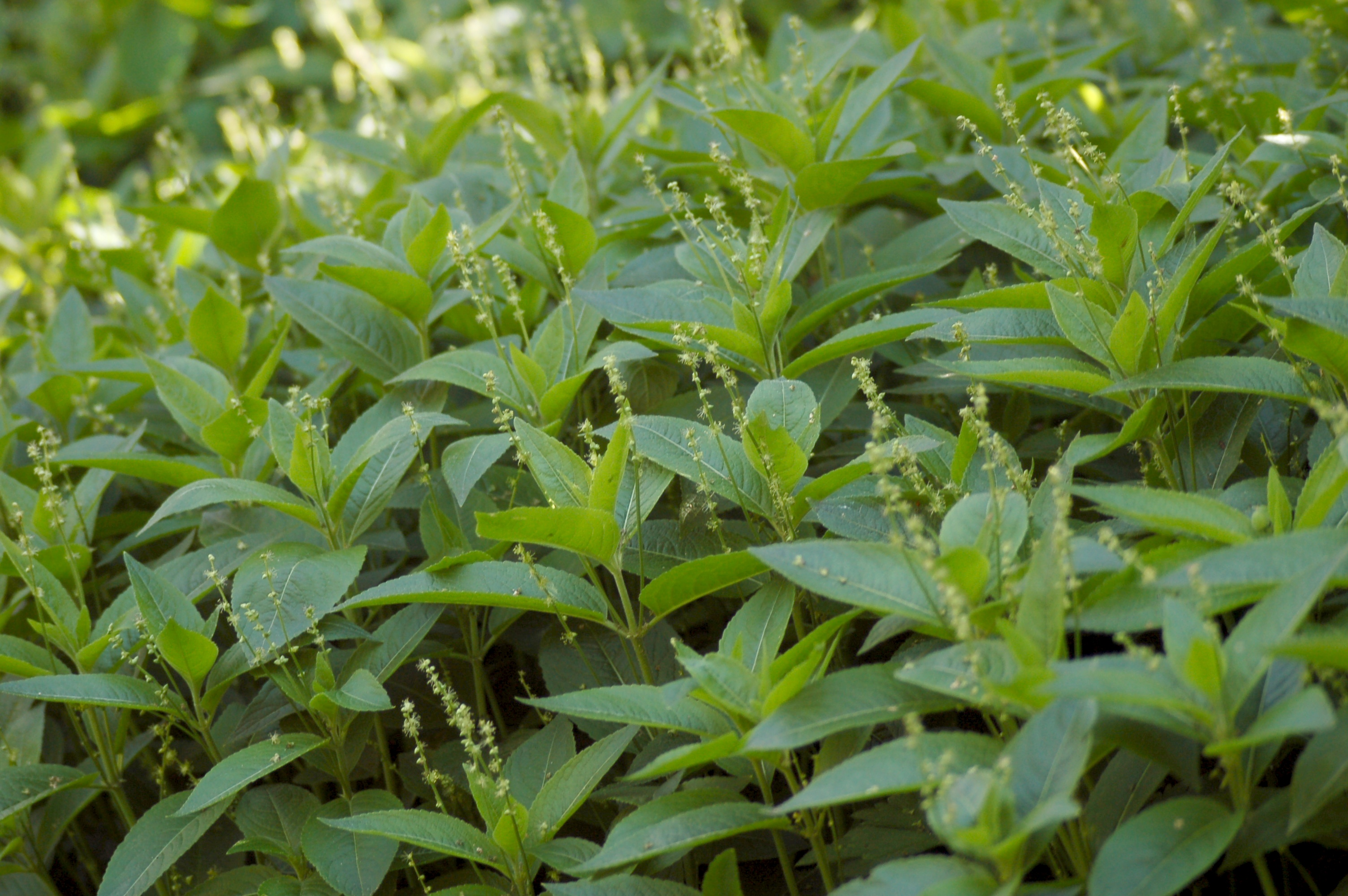 Mercurialis perennis, taken in Coutances, Manche, France.